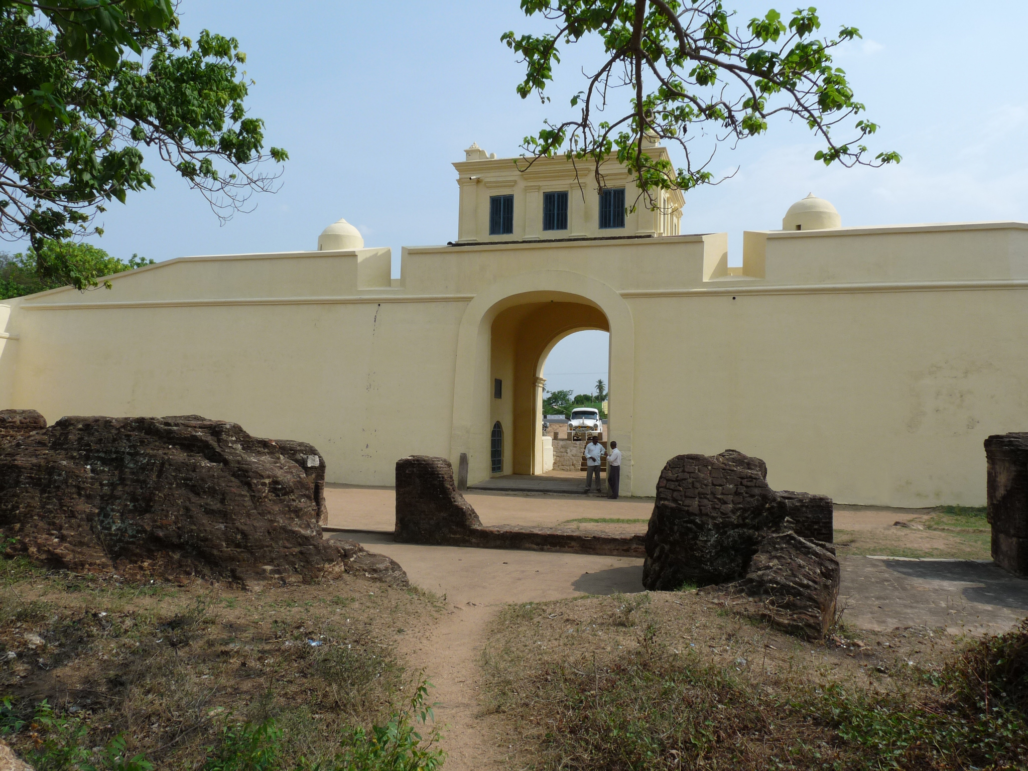 A view of Delhi Gate from the river side